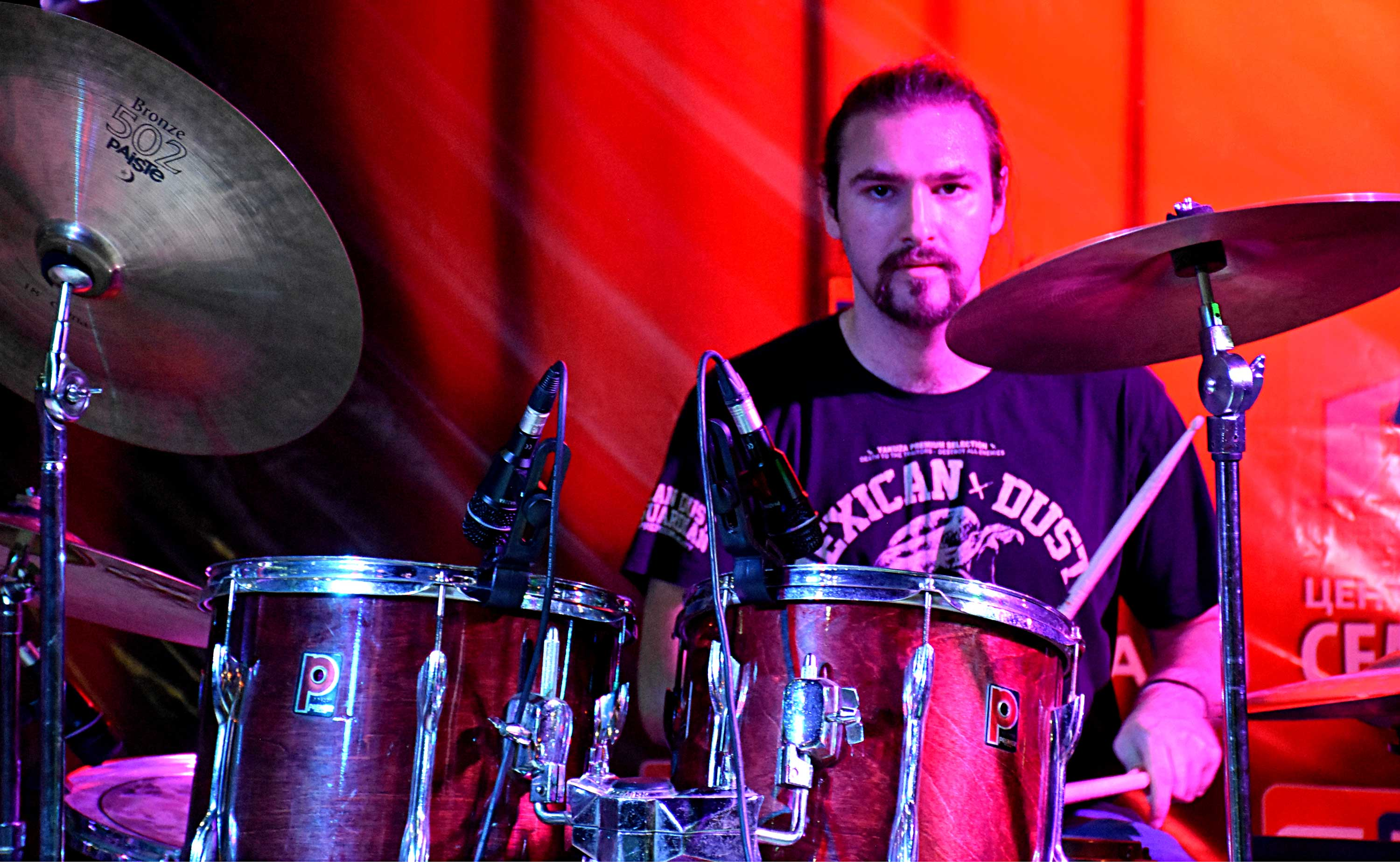 Patrias, heavy metal bend from Smederevo, Serbia